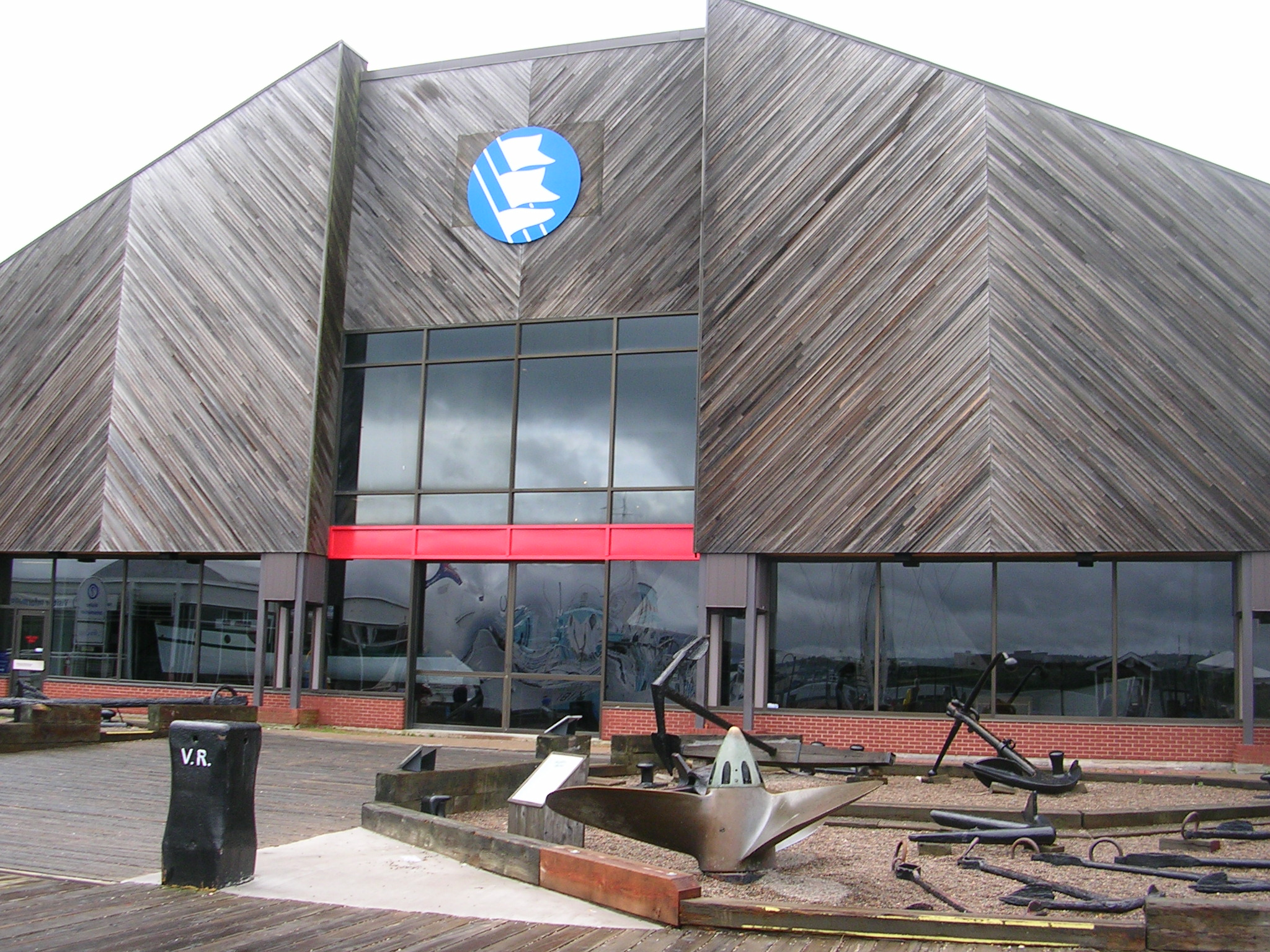 Image of the Maritime Museum of the Atlantic on September 4th, 2004 at approximately 13:08:55 (AST). Photograph taken with a Nicon Coolpix 3200.